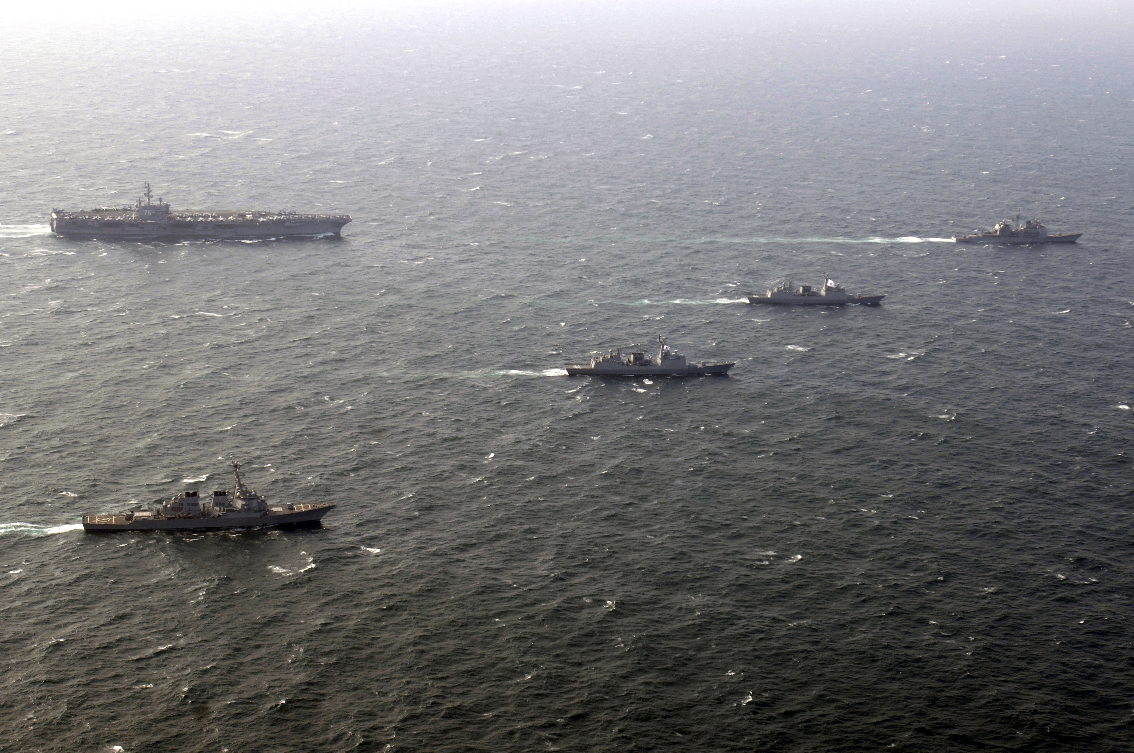 SEA OF JAPAN (March 27, 2007) - Nimitz-class aircraft carrier USS Ronald Reagan (CVN 76) maneuvers into position for a photo exercise (PHOTOEX) with the members of Ronald Reagan Strike Group and ships from the Republic of Korea as part of Exercise Reception, Staging, Onward Movement and Integration/Foal Eagle (RSOI/FE) 2007. The exercise demonstrates a commitment to the ROK/U.S. alliance and enhances combat readiness through combined and joint training. U.S. Navy photo by Mass Communication Specialist 2nd Class Aaron Burden (RELEASED)